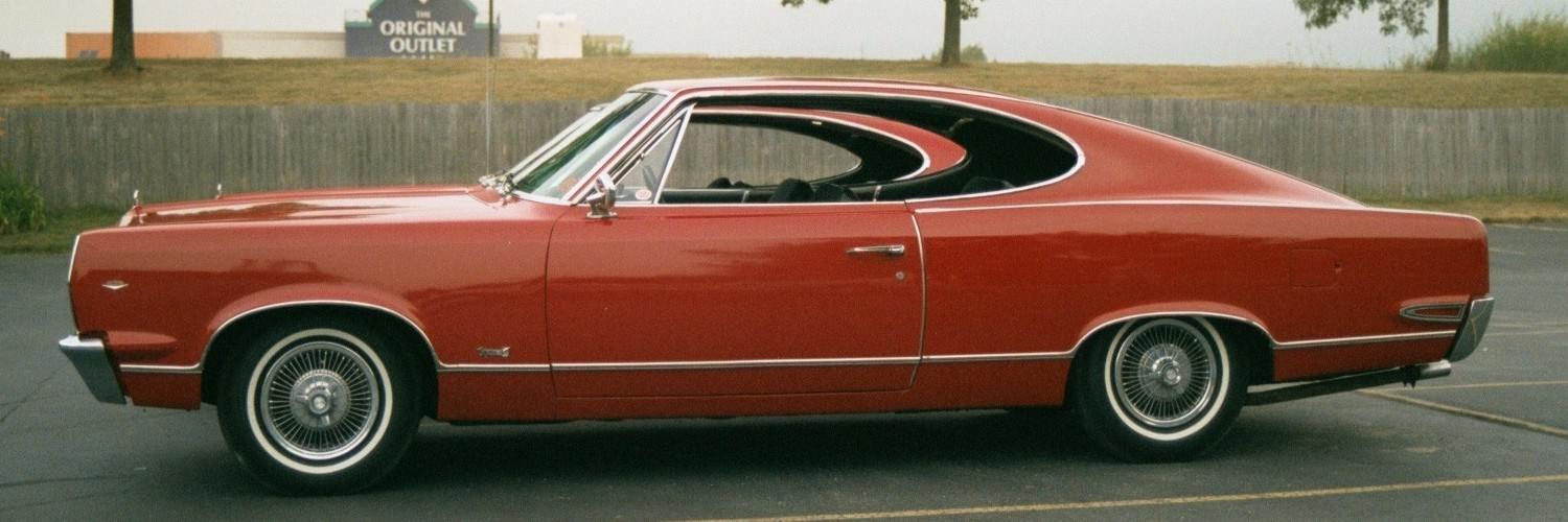 Side view of two similar 1967 AMC Marlins (built by American Motors Corporation) "personal-luzury" two-door hardtop (no "B" pillar) fastbacks. Both cars are finished in red. Photograph taken after the 100th Rambler Anniversary show that was held in Kenosha, Wisconsin.